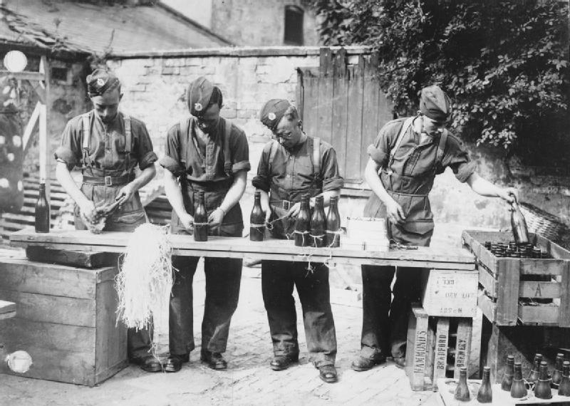 The British Army in the United Kingdom 1939-45 Sappers of 211 Field Park Company, Royal Engineers, attached to 44th Infantry Division, make 'Molotov Cocktails' from beer bottles at Woodlands, Doncaster, England, as part of British preparations to repel the threatened German invasion of 1940.